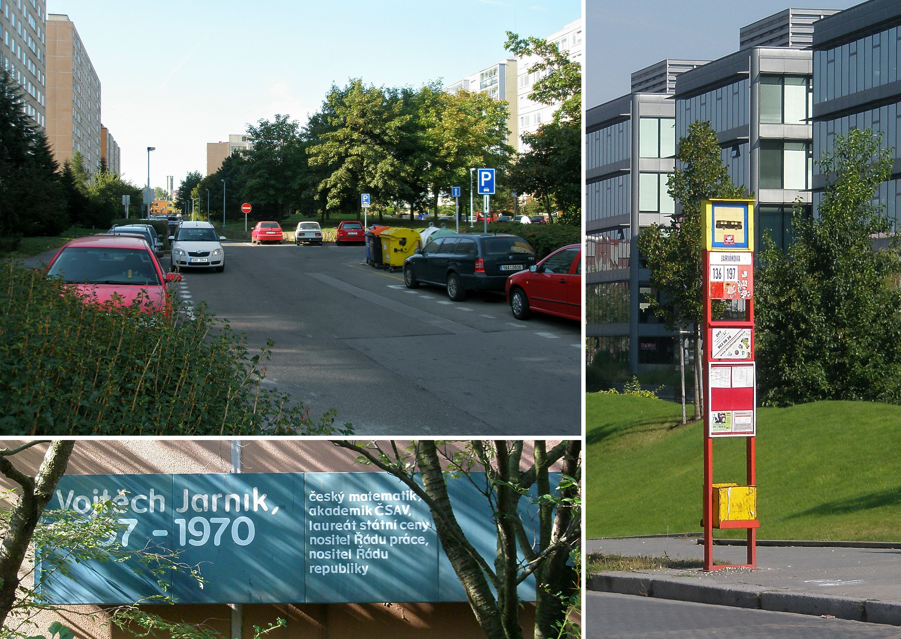 Jarníkova street in Prague-Chodov, named after Czech mathematician Vojtěch Jarník